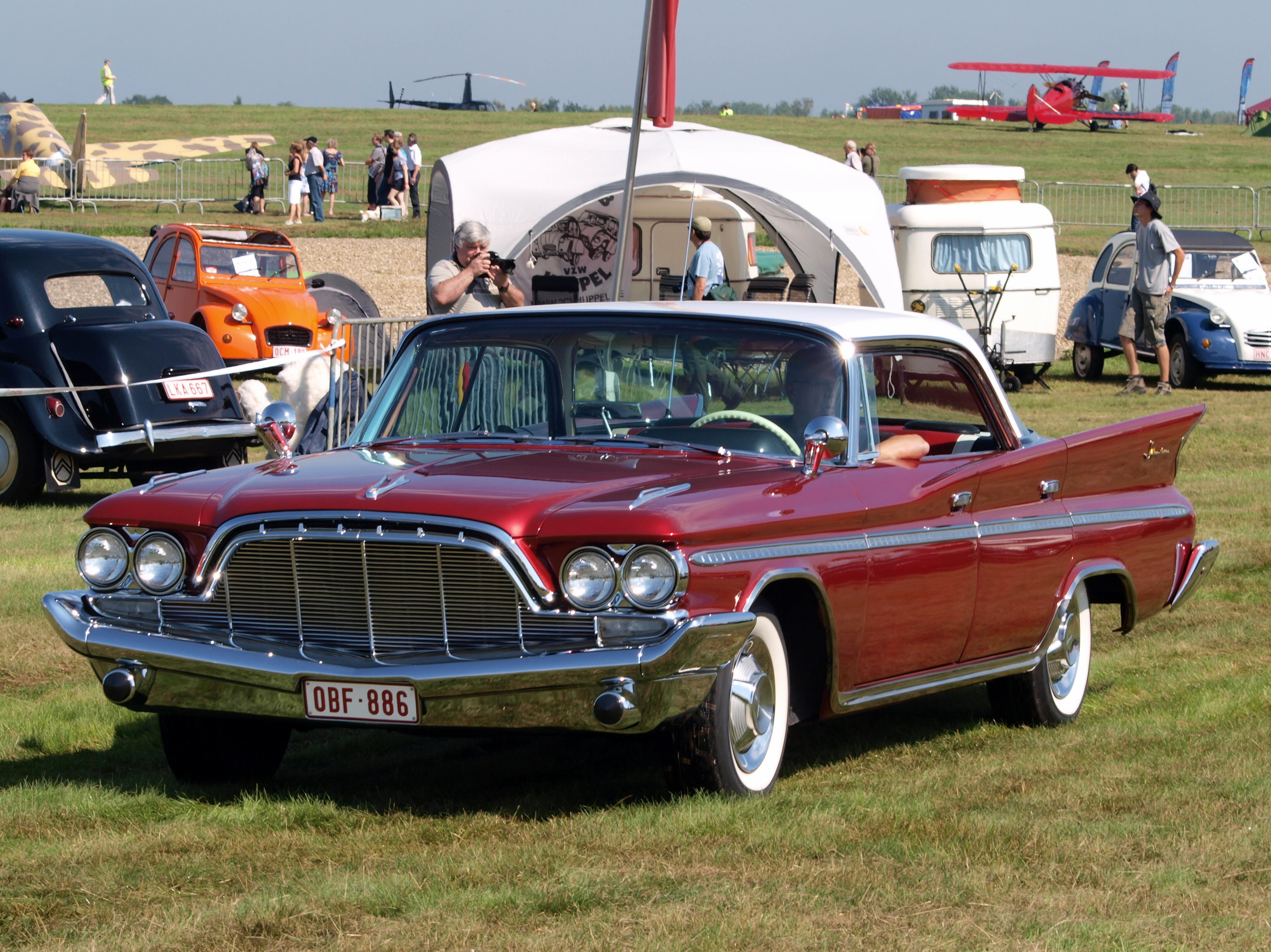 A 1960 DeSoto Adventurer at The International Oldtimer Fly and Drive In 2010, Schaffen-Diest, Belgium.